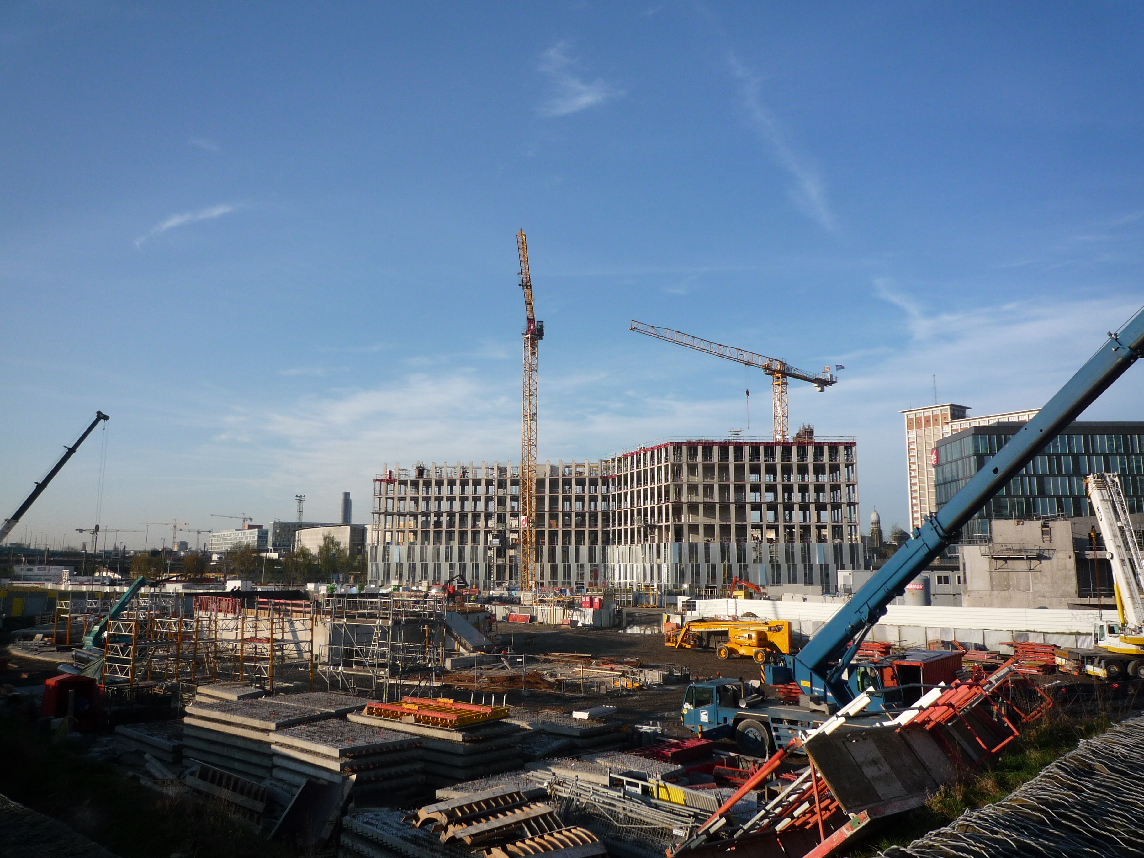 Euralille at Lille, France.